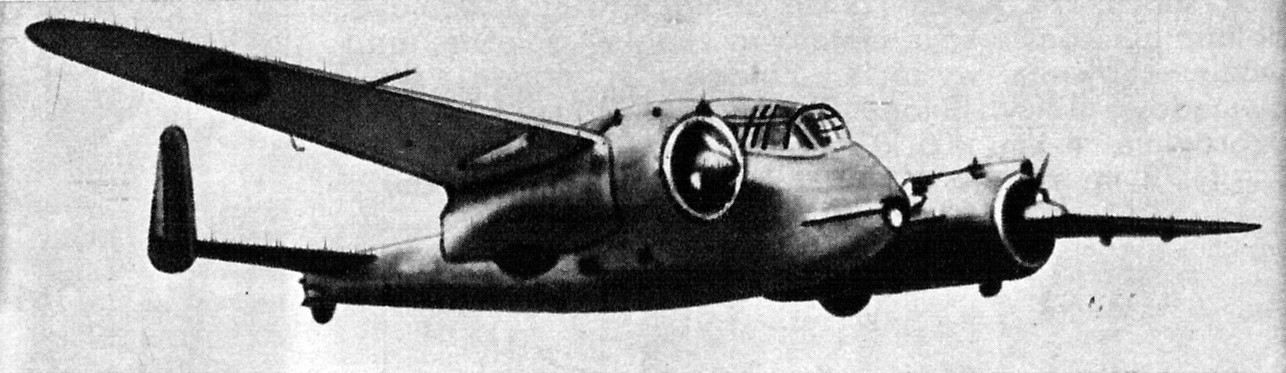 French attack aircraft Breguet 690 [691] (captionned in the Polish source and in a French source as a Breguet 690 and in another French source as a Breguet 691).